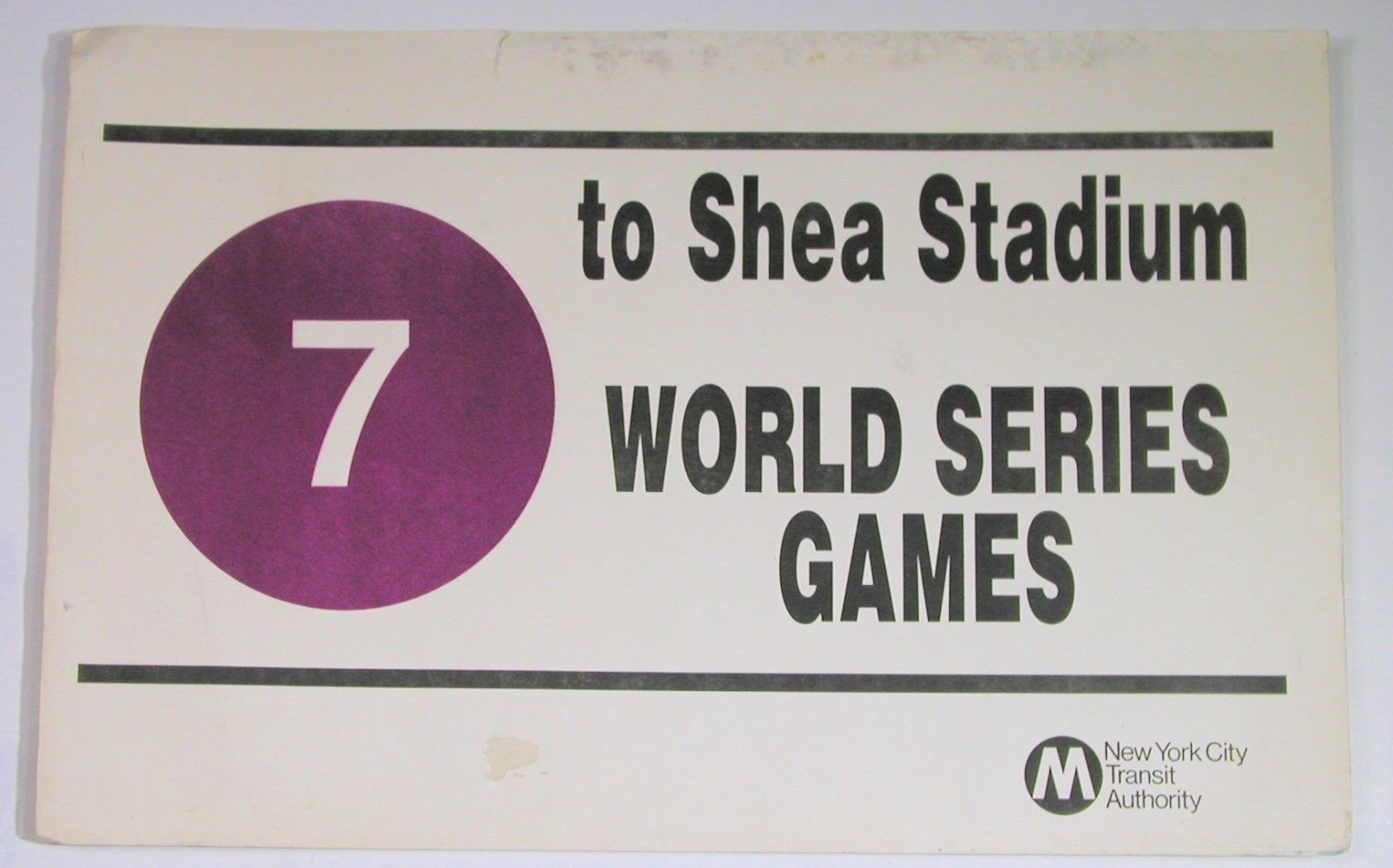 This poster was used on 7 trains heading to Shea Stadium for the World Series in 1986, which the New York Mets won. This work is in the public domain because it was published in the United States between 1978 and March 1, 1989 without a copyright notice, and its copyright was not subsequently registered with the U.S. Copyright Office within 5 years. Unless its author has been dead for several years, it is copyrighted in the countries or areas that do not apply the rule of the shorter term for US works, such as Canada (50 pma), Mainland China (50 pma, not Hong Kong or Macao), Germany (70 pma), Mexico (100 pma), Switzerland (70 pma), and other countries with individual treaties. See this page for further explanation.